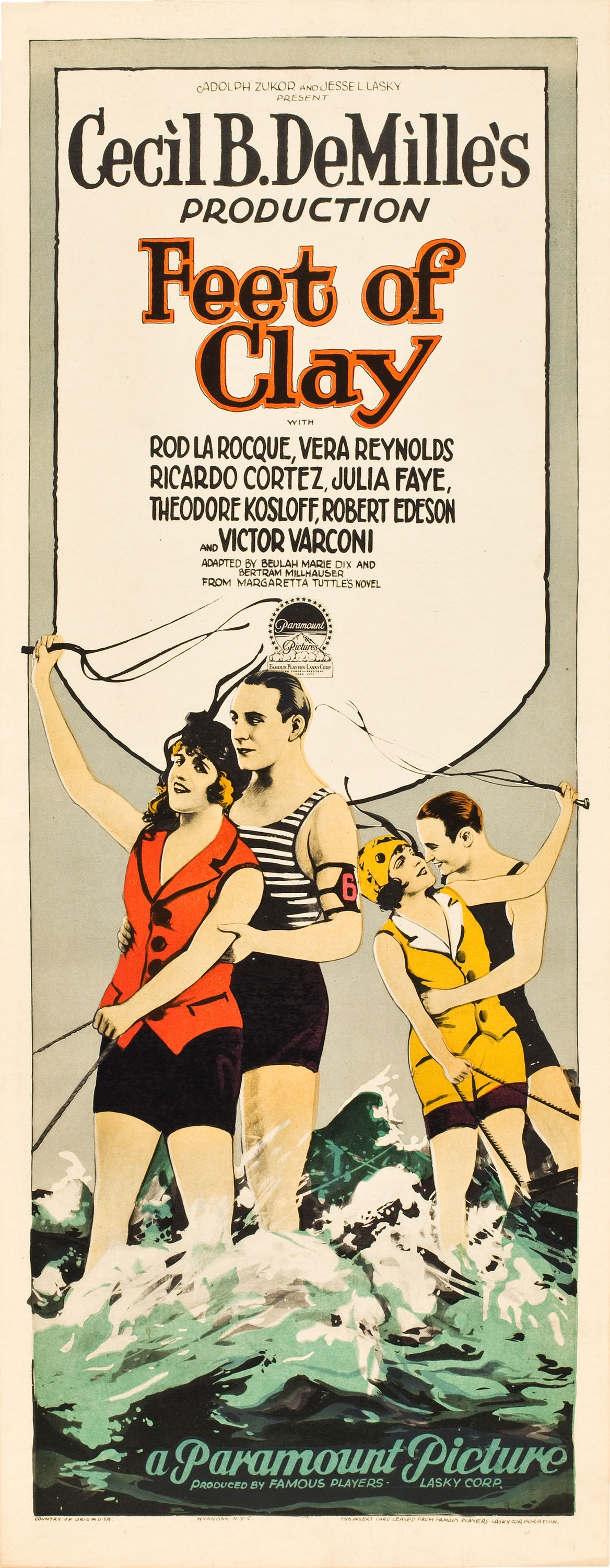 Feet of Clay is a 1924 American silent drama film directed and produced by Cecil B. DeMille, starring Vera Reynolds and Rod La Rocque, and with set design by Norman Bel Geddes. This movie poster clearly has no copyright mark and was made pre 1978, thus public domain.